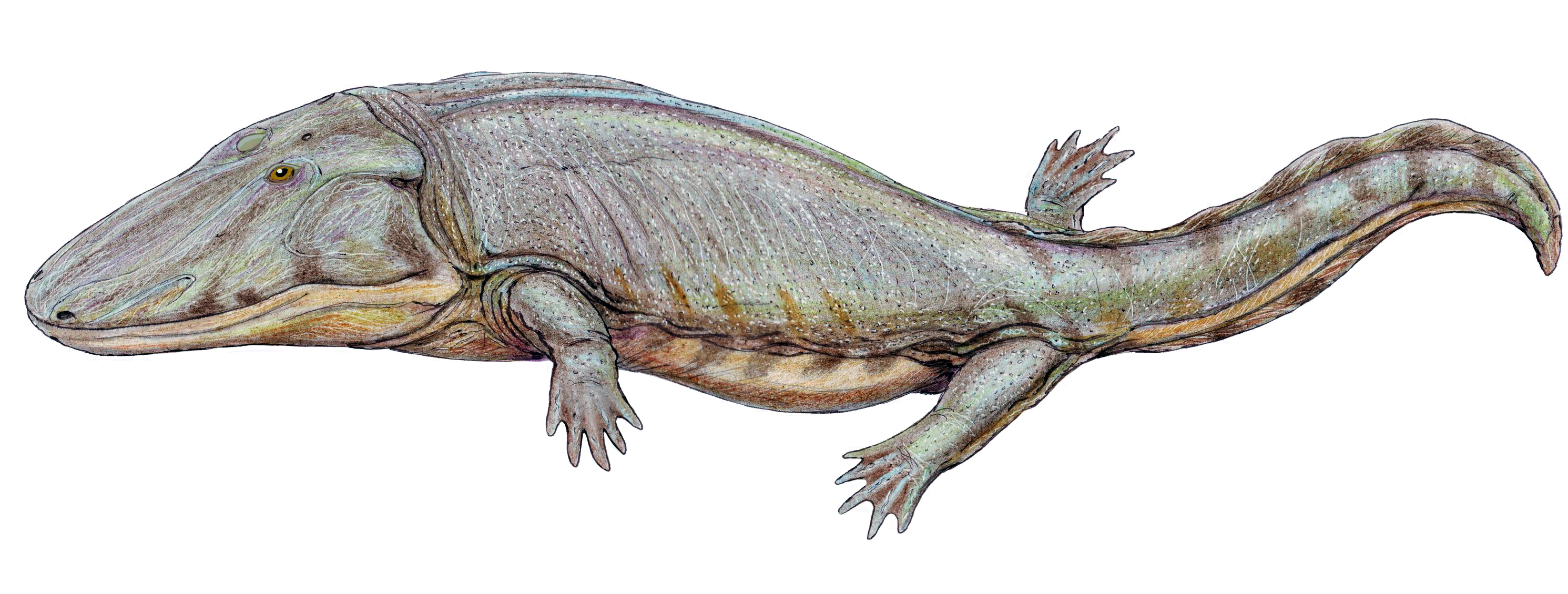 Paracyclotosaurus davidi - giant temnospondyl from Late Triassic of Australia